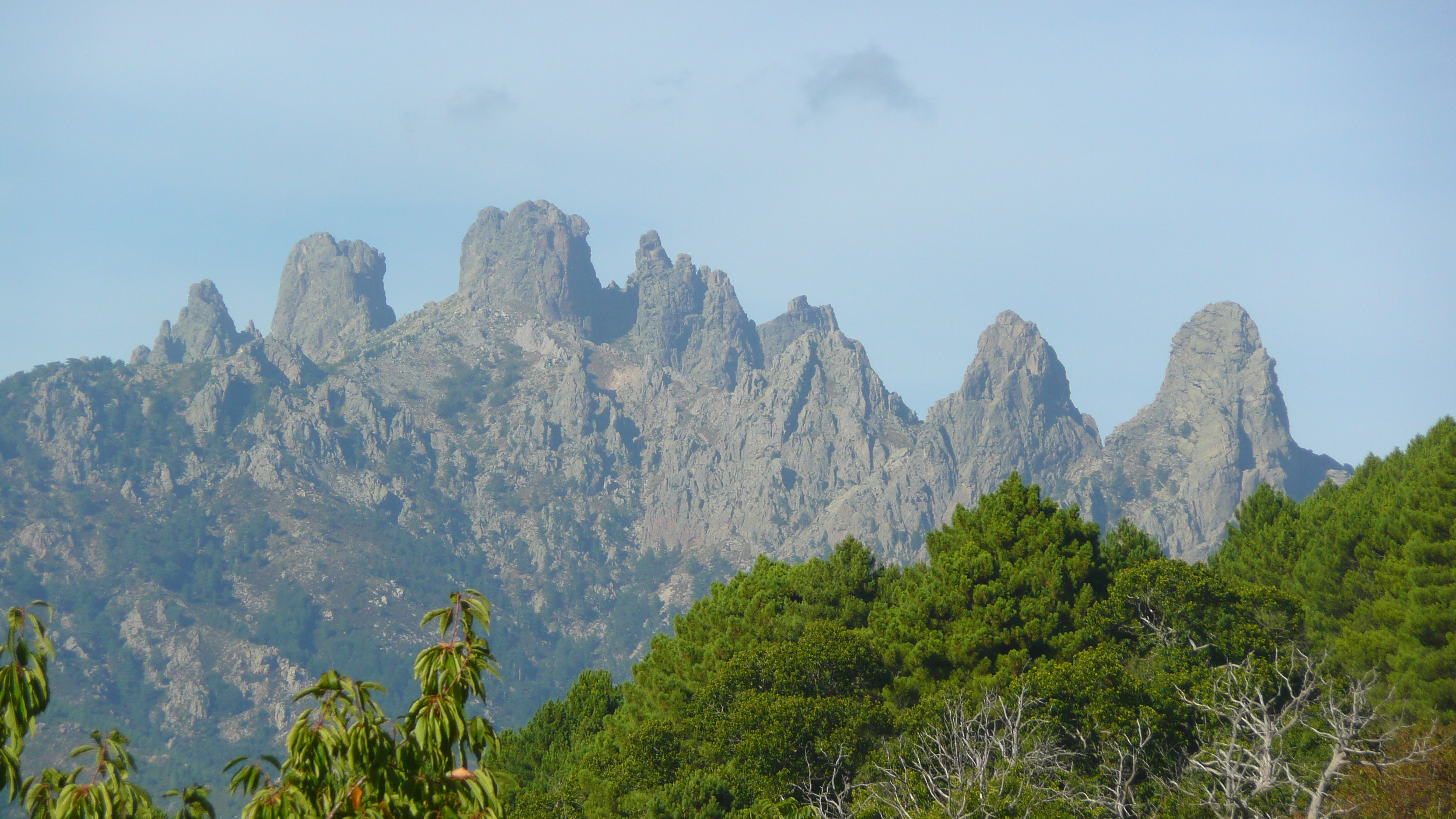 View from Zonza (Corsica) towards the Bavella needles (Aiguilles de Bavella)